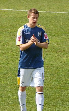 Photo of footballer Paul Parry